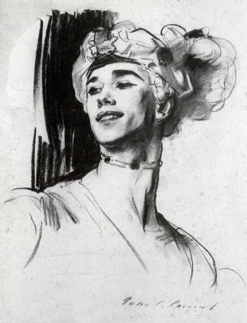 Portrait of Vaslav Nijinsky in Pavilion d'Armide. Sargent deliberately exaggerated the length of his neck to convey the impression he gave in the role of a mysterious and sexless creature. Shown in costume with turban and choker.